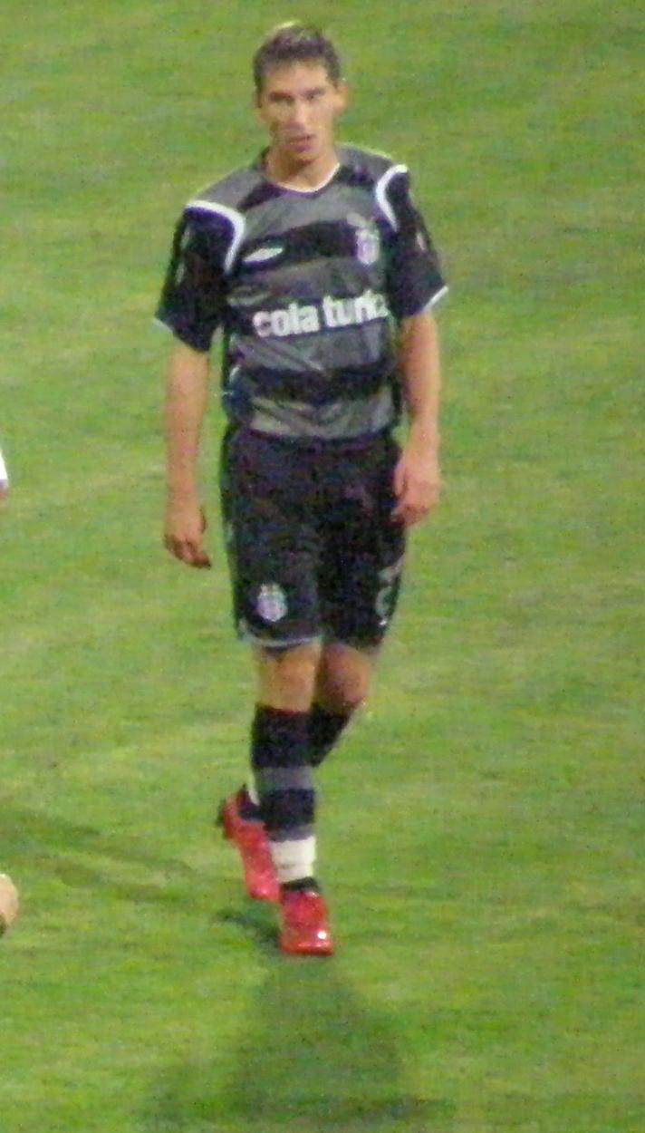 Filip Hološko in Beşiktaş- Siroki Brijeg match (28 August 2008)